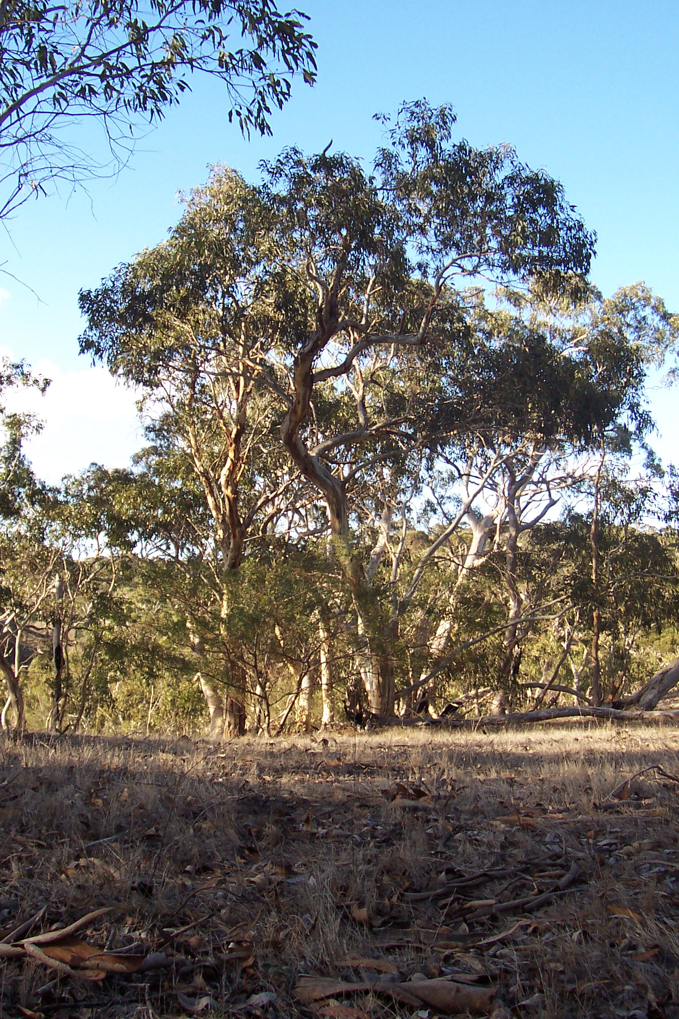 Big Eucalypt in Mount Magnificent Conservation Park